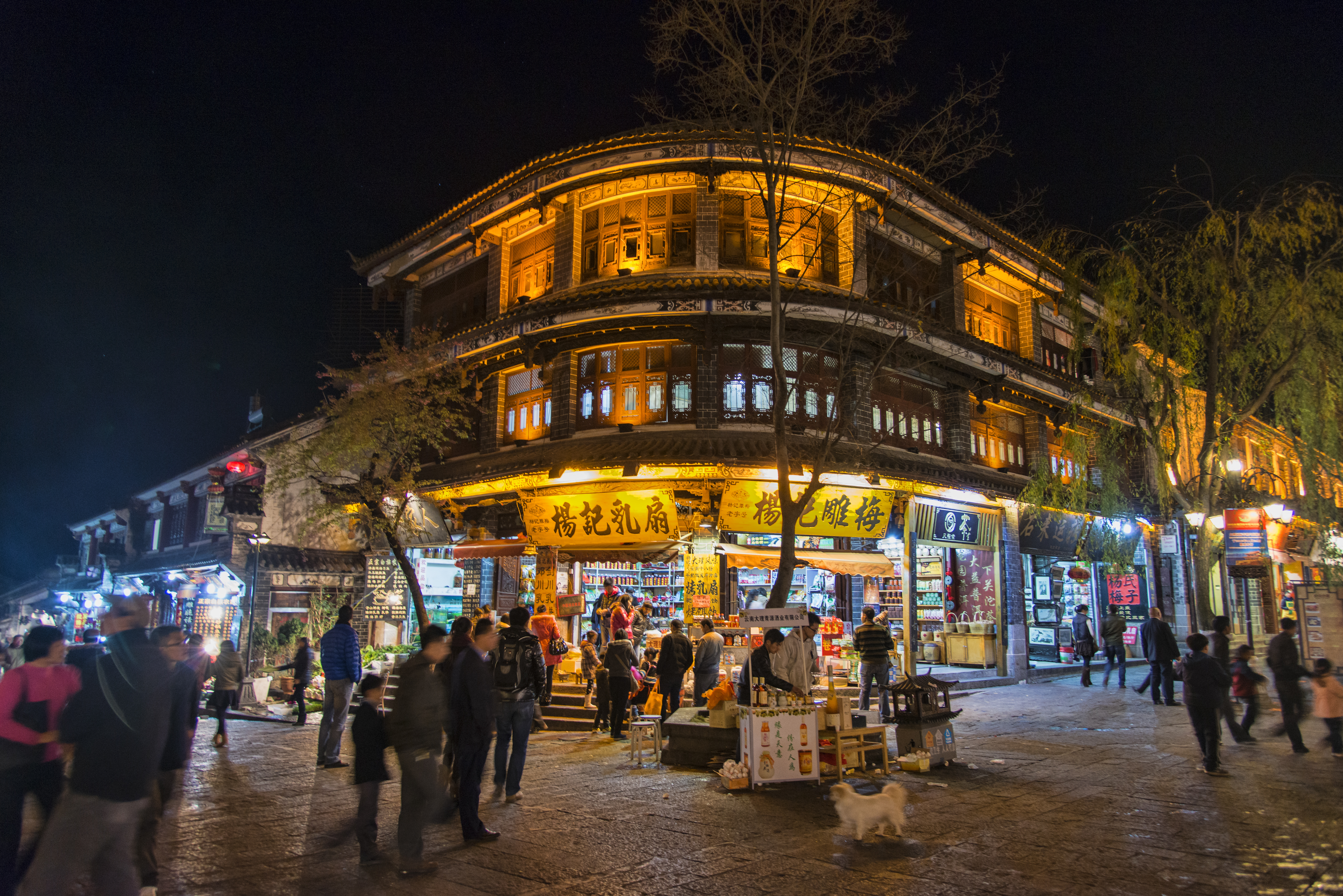 dali old town yunnan china night 2012 yang ren jie